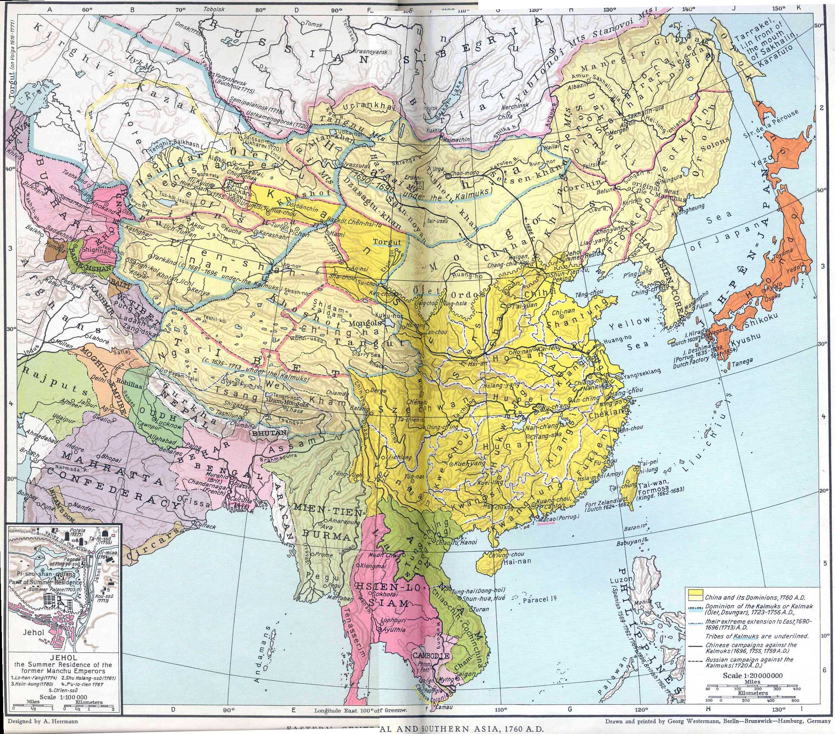 Qing Dynasty 1760 under the reign of the Qianlong Emperor.